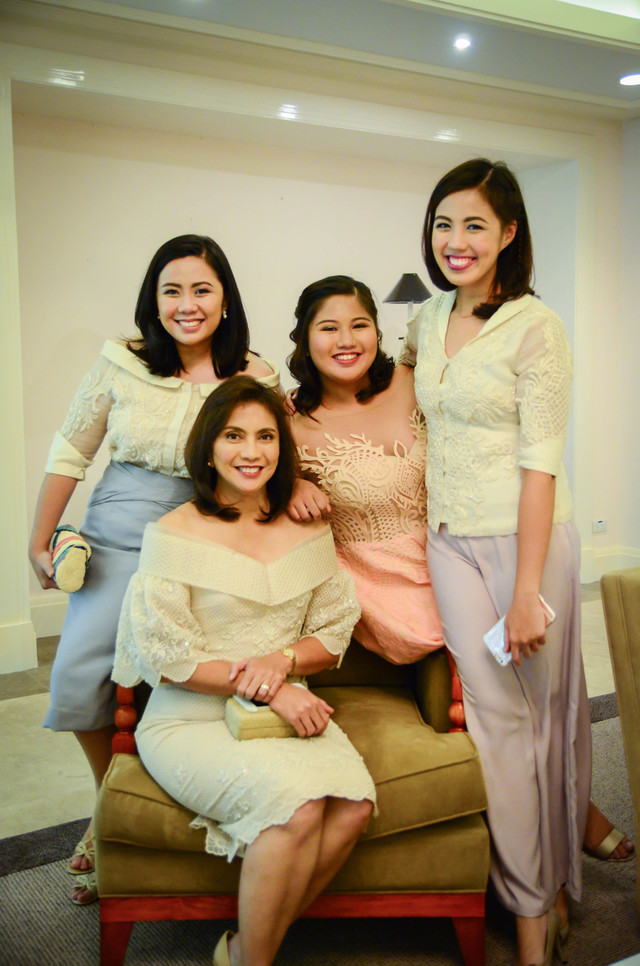 Leni Robredo and her daughters Aika, Tricia and Jillian before heading to President Rodrigo Duterte's First State of the Nation Address